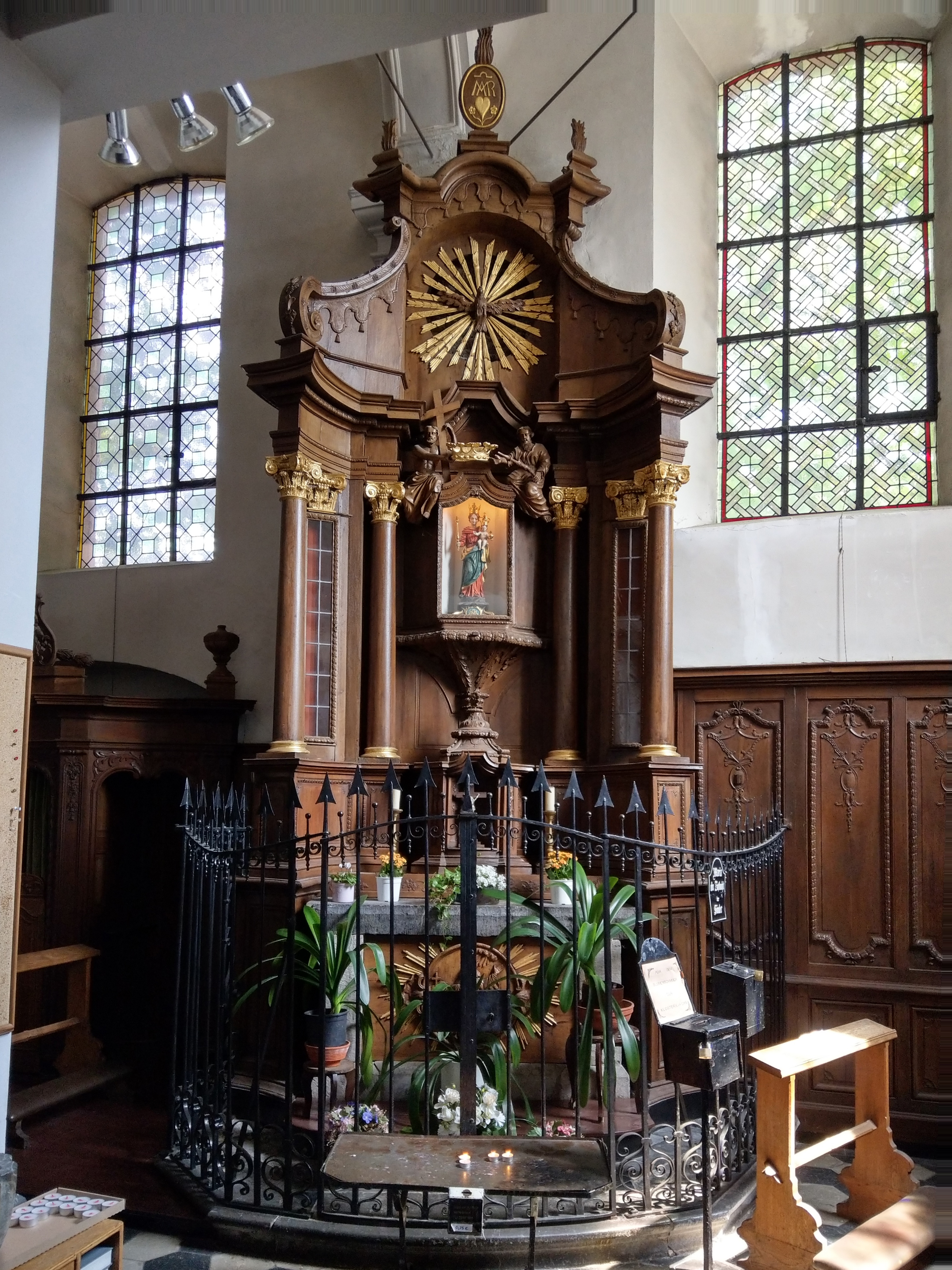 Church of the Immaculate Conception